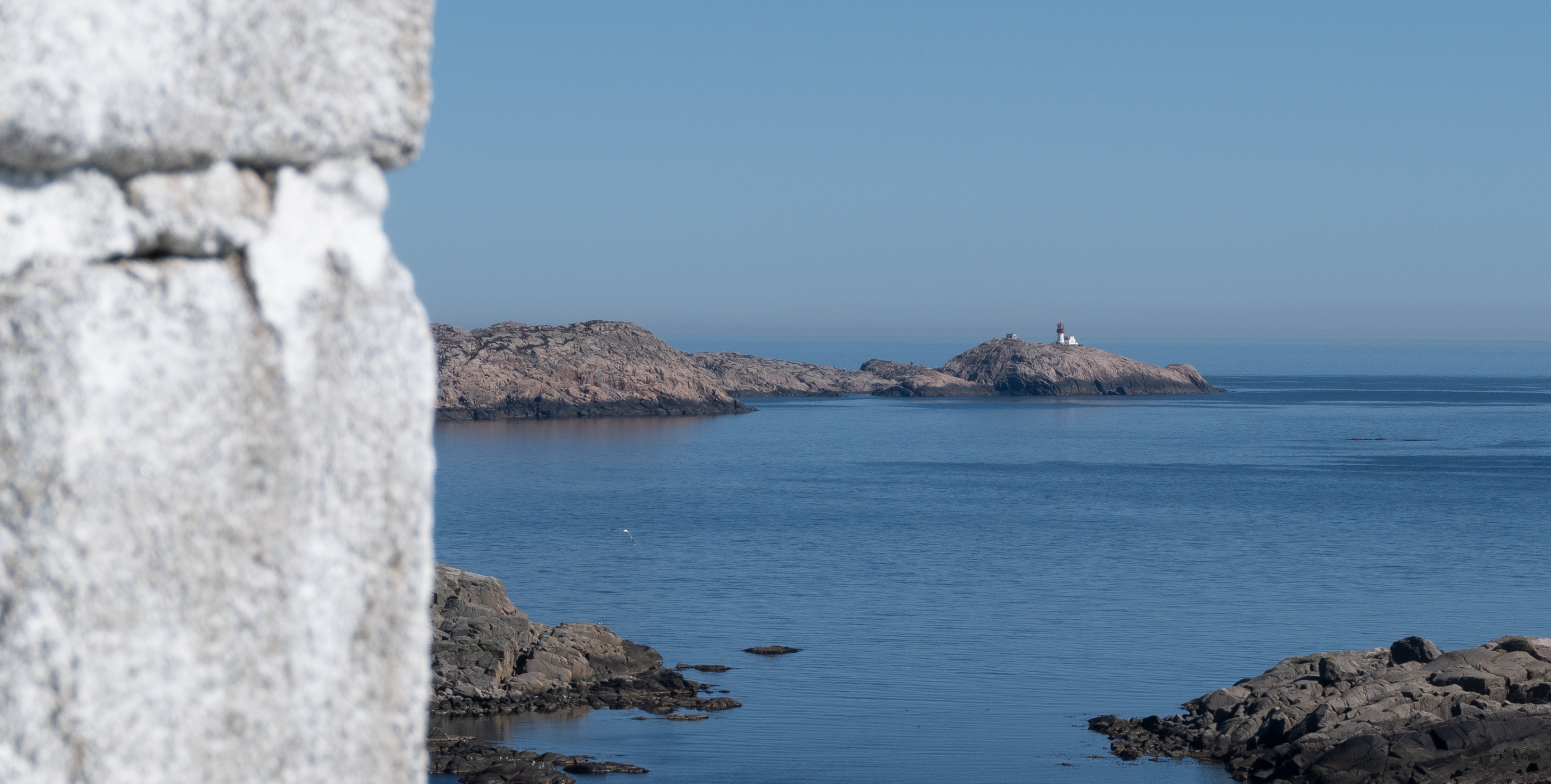 Lindesnes Lighthouse seen from Markøy lighthouse